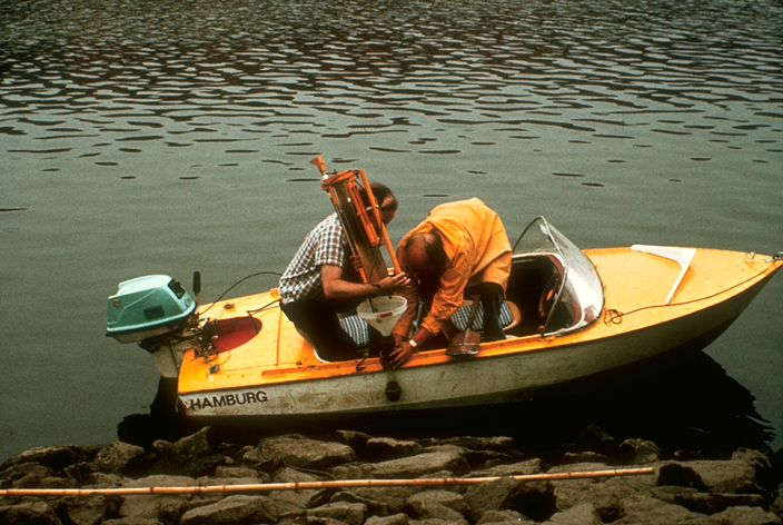 Analytics of water quality in the harbour channels of Hamburg.